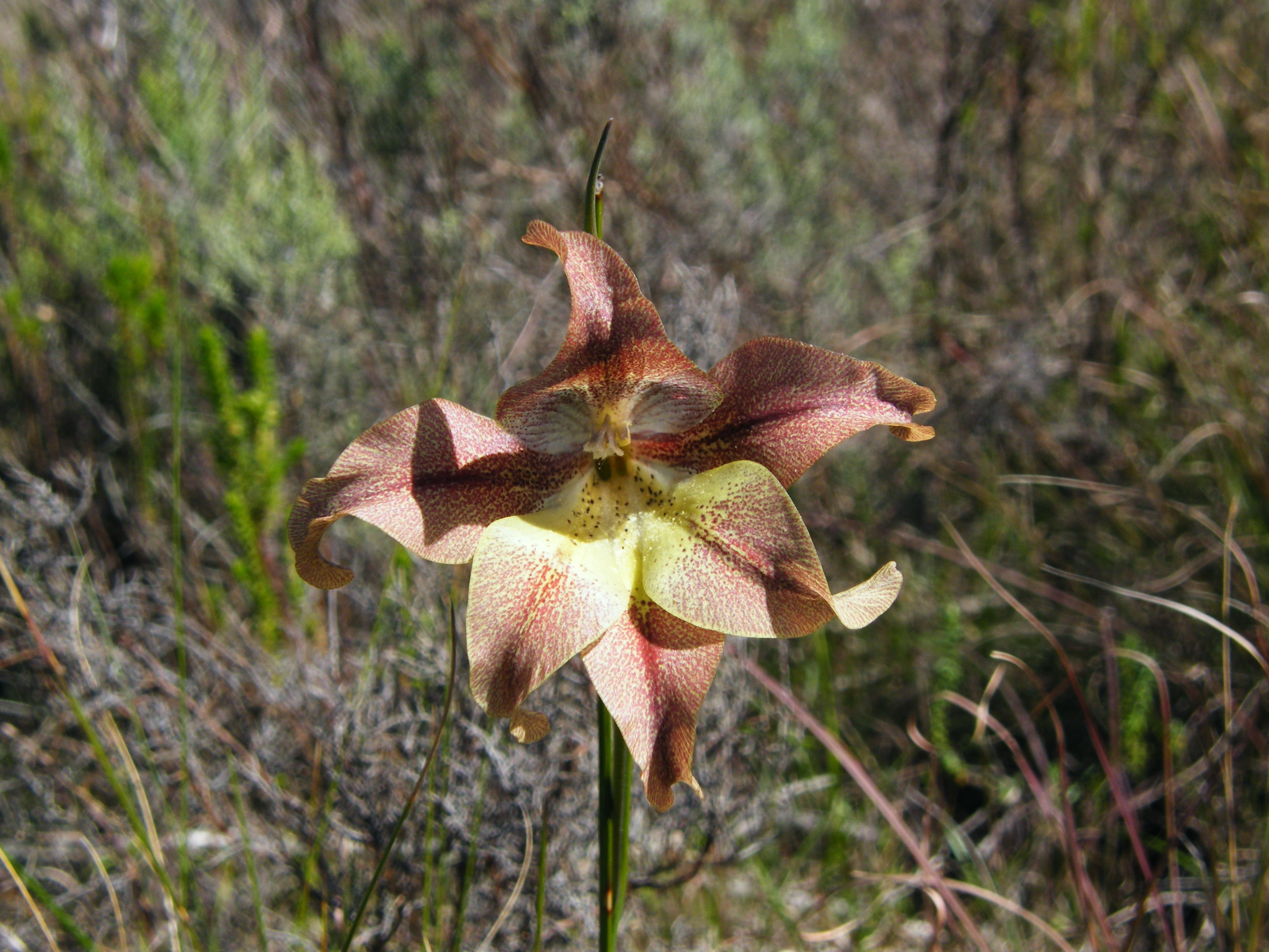 Large Brown Afrikaner, Caledon Area, South Africa